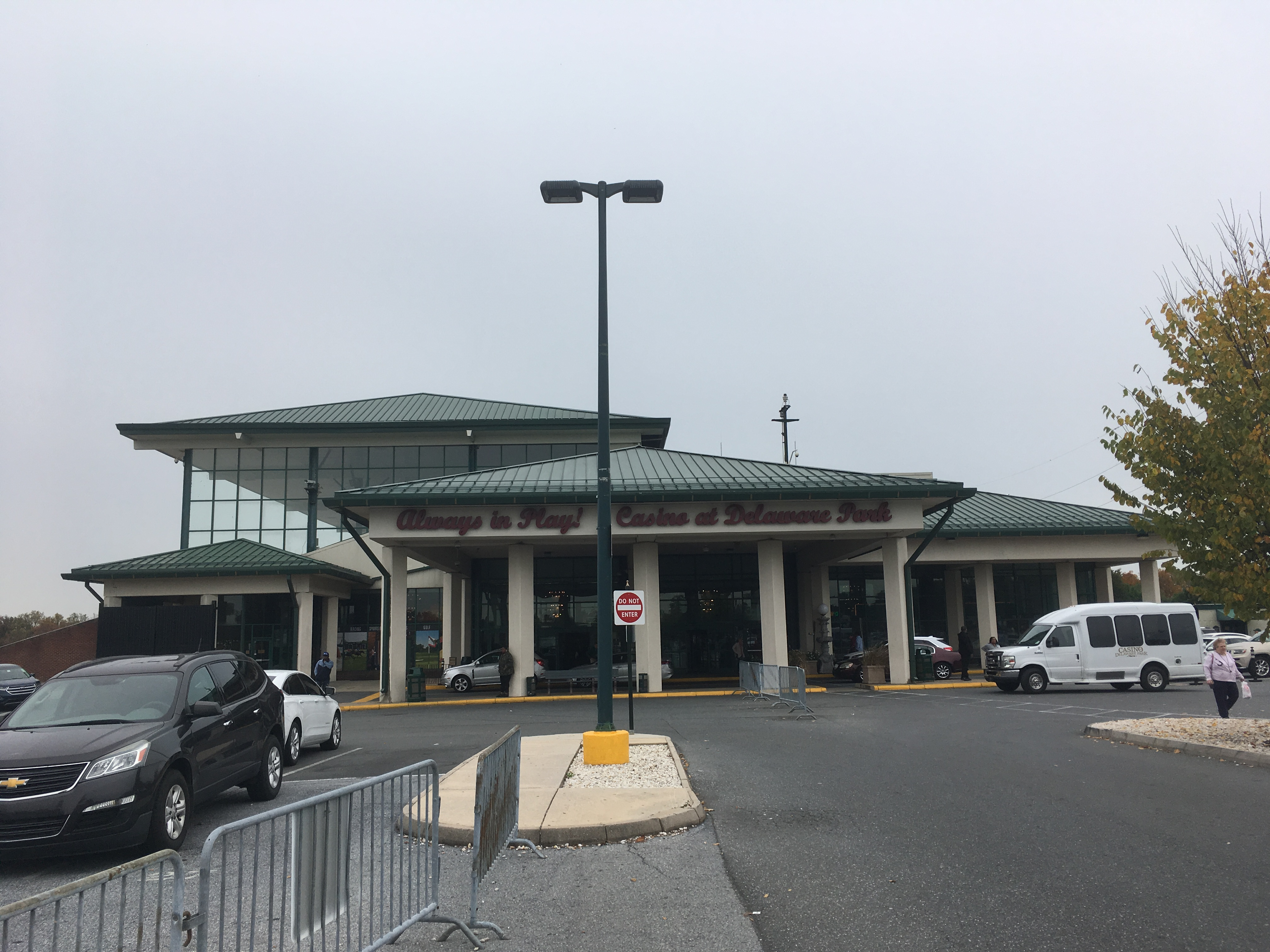 The main entrance to the Casino at Delaware Park in Stanton, Delaware